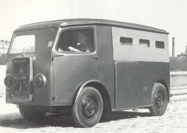 This picture comes from french WIkipedia. In the following link, you can find all about its copyright status: This picture shows an ancient van produced in the Thirties by Citroen. Its name was TUB.